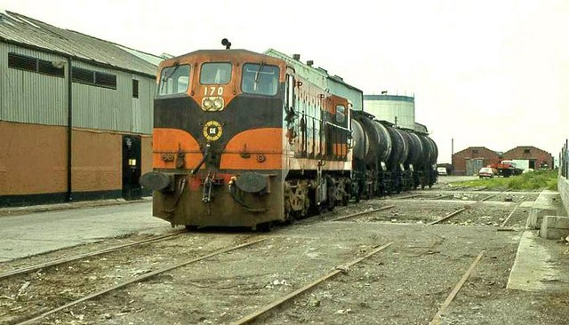 Railway at Sligo Quay — Most of the rail freight handled at Sligo passed through the depot known as “Sligo Quay”. The line continued beyond there, onto harbour property, to serve a bitumen works. Locomotive No. 170, with a train of bitumen tanks, is seen approaching the western end of the deepwater siding.